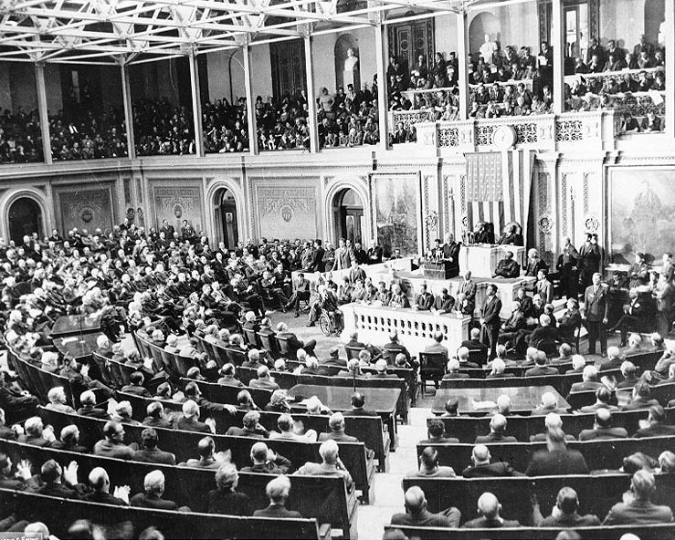 U.S. President Franklin Delano Roosevelt addresses a joint session of United States Congress. It is typically identified as a photo of Roosevelt's "Infamy" speech, December 8, 1941, however this has been disputed. It is also possible that this photo was actually taken during his "Four Freedoms" speech (State of the Union address, January 6, 1941) or his 1942 State of the Union address (January 6, 1942). Photo 208-CN-3992